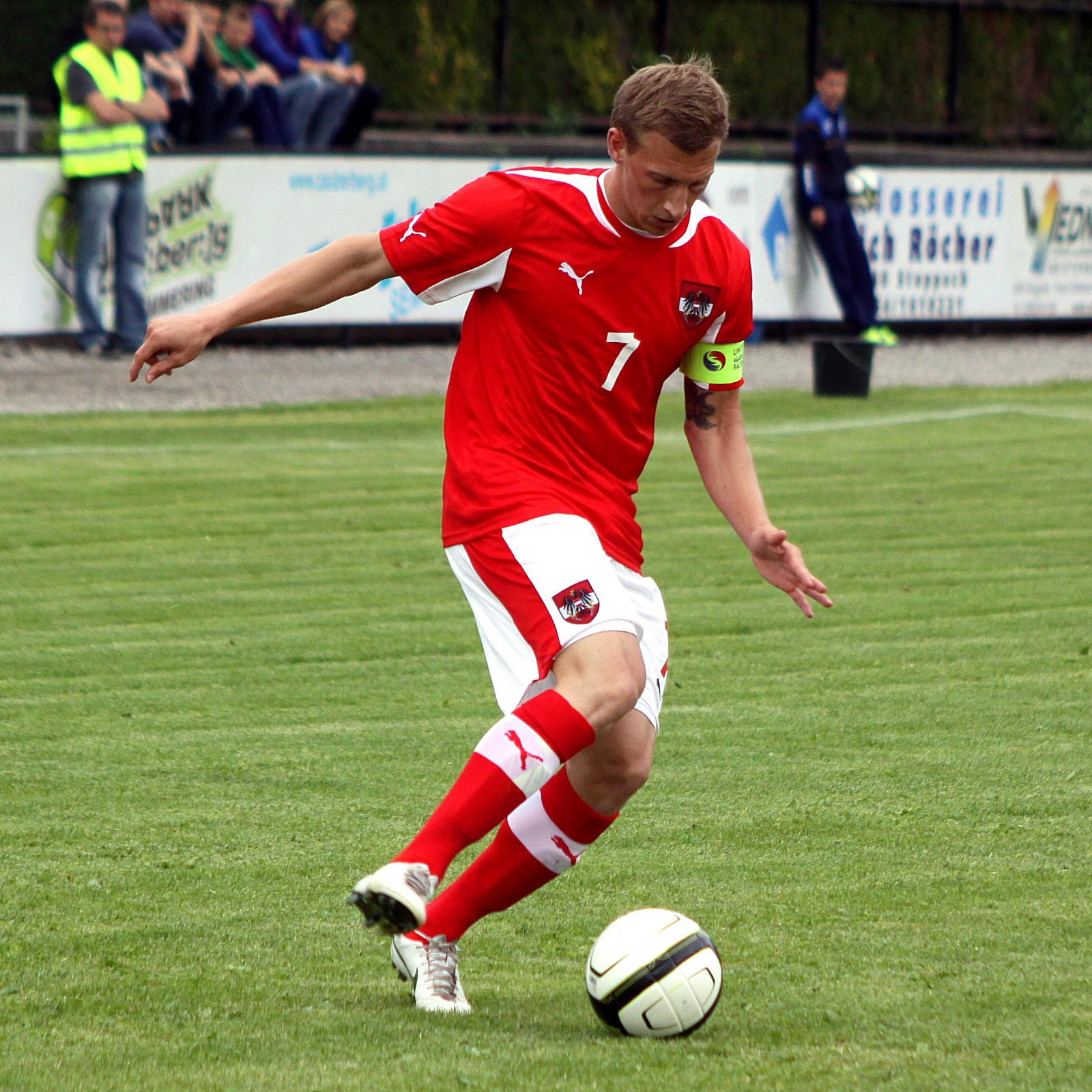 Testmatch of the austrian national under-21 football team (age group 1990) vs SV Gloggnitz at 2012-06-02 in the stadium of Gloggnitz – The photo shows Daniel Royer (Hannover 96). Object location 47° 39′ 53.73″ N, 15° 55′ 53.42″ E - OpenStreetMap - Proximityrama(Info)